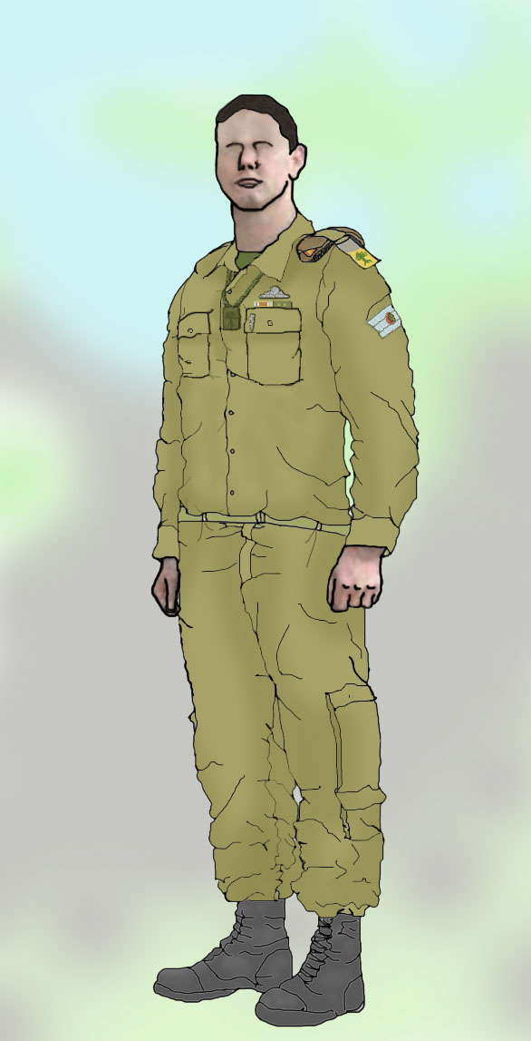 IDF dress uniform of a Srg. First class, medic from the Golani Brigade.